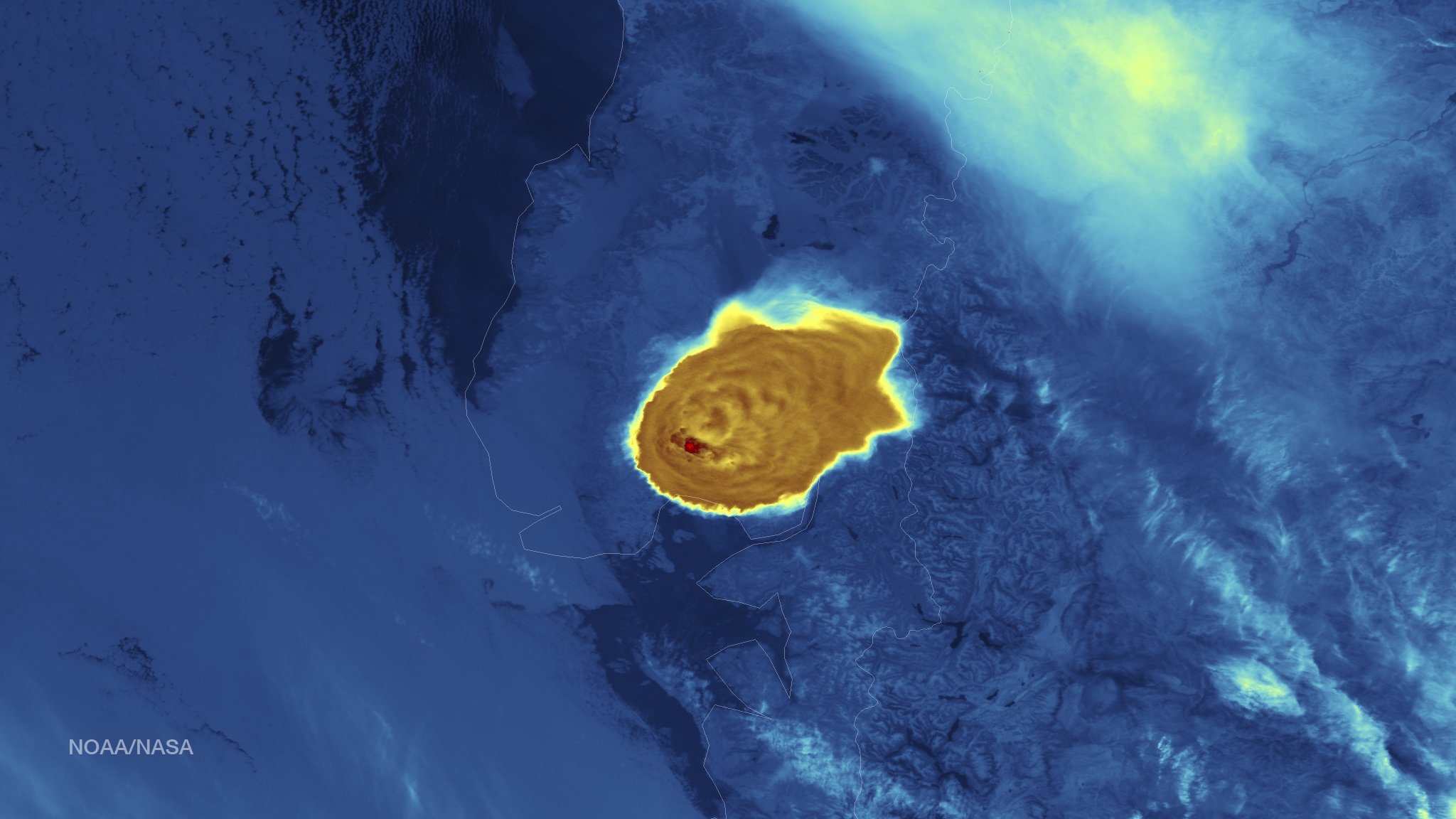 Calbuco Volcano in southern Chile has erupted for the first time since 1972, with the last major eruption occurring in 1961 that sent ash columns 12-15 kilometers high. This image was taken by the Suomi NPP satellite's VIIRS instrument in a high resolution infrared channel around 0515Z on April 23, 2015.